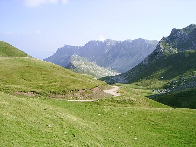 Zelengora mountains in Bosnia-Herzegovina